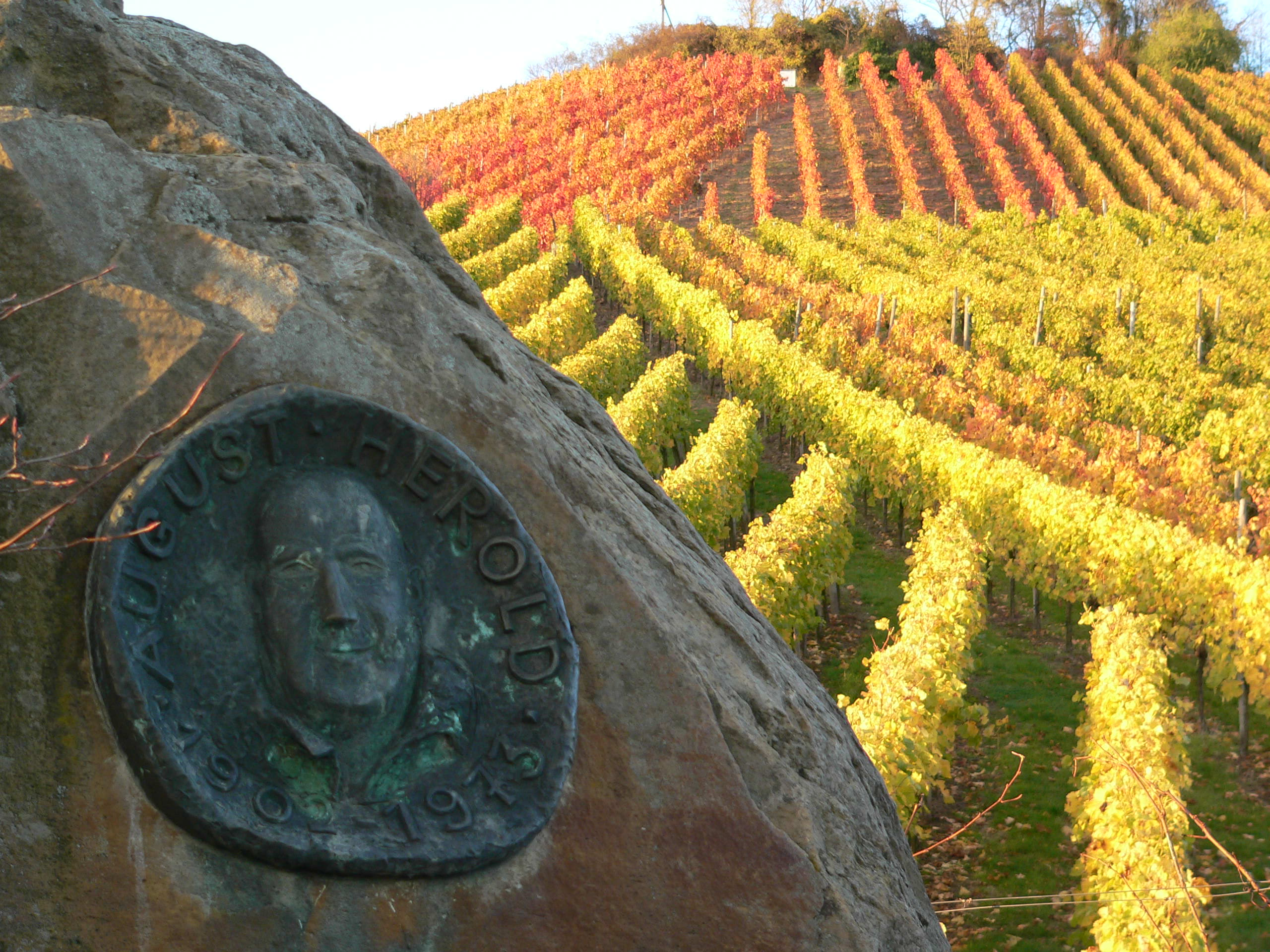 Medallion with the portrait of August Herold in the vineyards of the city Neckarsulm